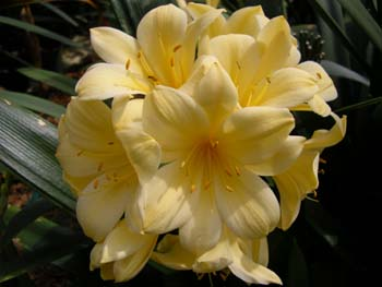 Very good quality flower of the yellow variety of Clivia miniata.